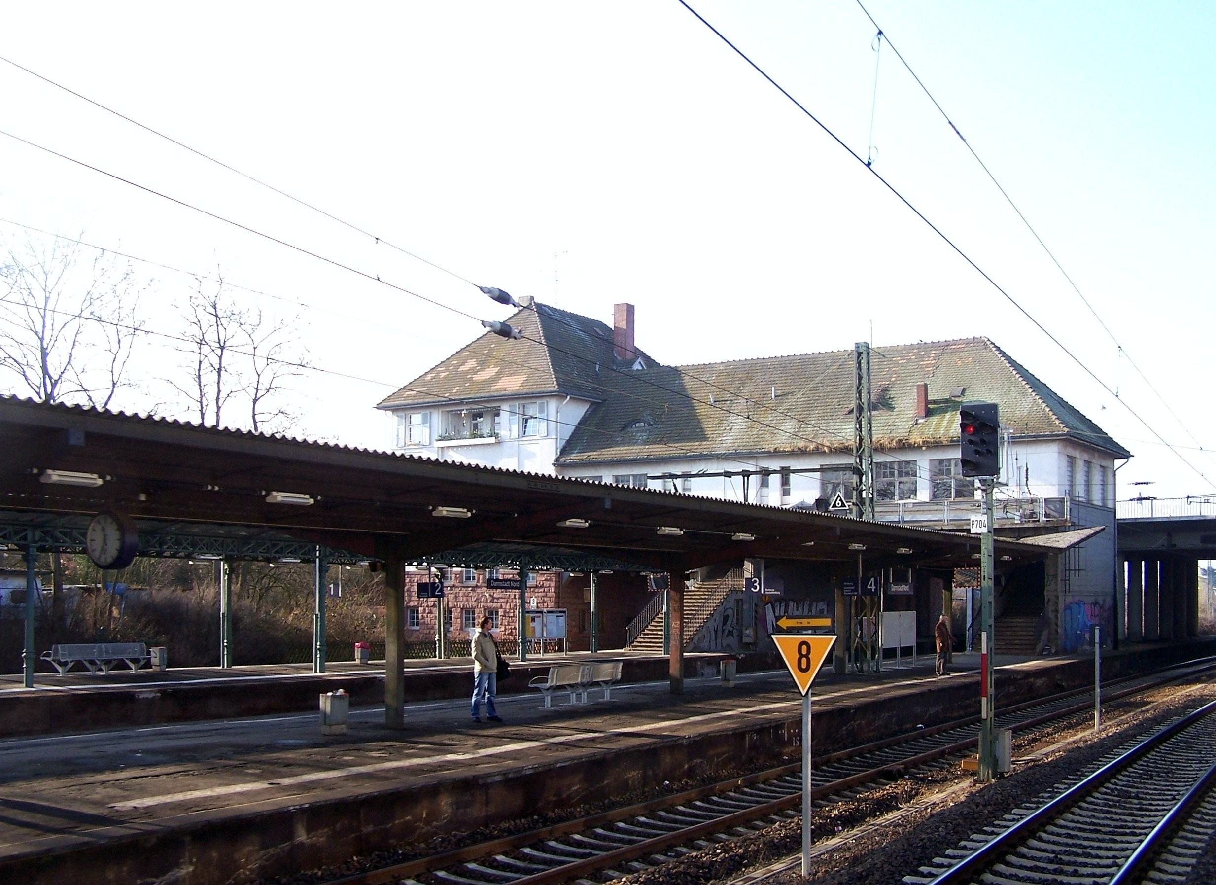 Darmstadt Nord station, view from passing train